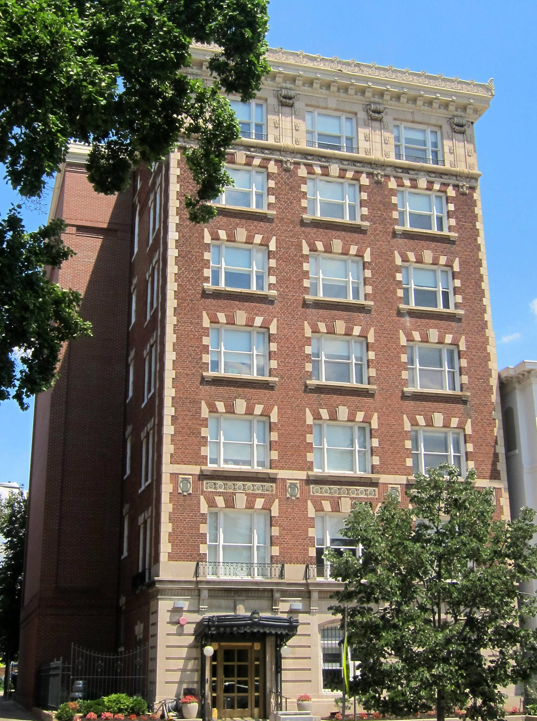 Headquarters of Family Matters of Greater Washington located at 1509 16th Street, N.W., in the Dupont Circle neighborhood of Washington, D.C. Built in 1909 to the designs of architectural firm Averill, Hall & Adams, the Italianate-style former apartment building and hotel is designated as a contributing property to the Sixteenth Street Historic District, listed on the National Register of Historic Places in 1978. Former occupants include Albert S. Burleson, Timothy T. Ansberry, Champ Clark, Christian Inn, Christian Service Corporation, Albert B. Cummins, John W. Davis, Charles B. Howry, Frances P. Keyes, William F. McDowell, National Association for the Education of Young Children, and John K. Shields.